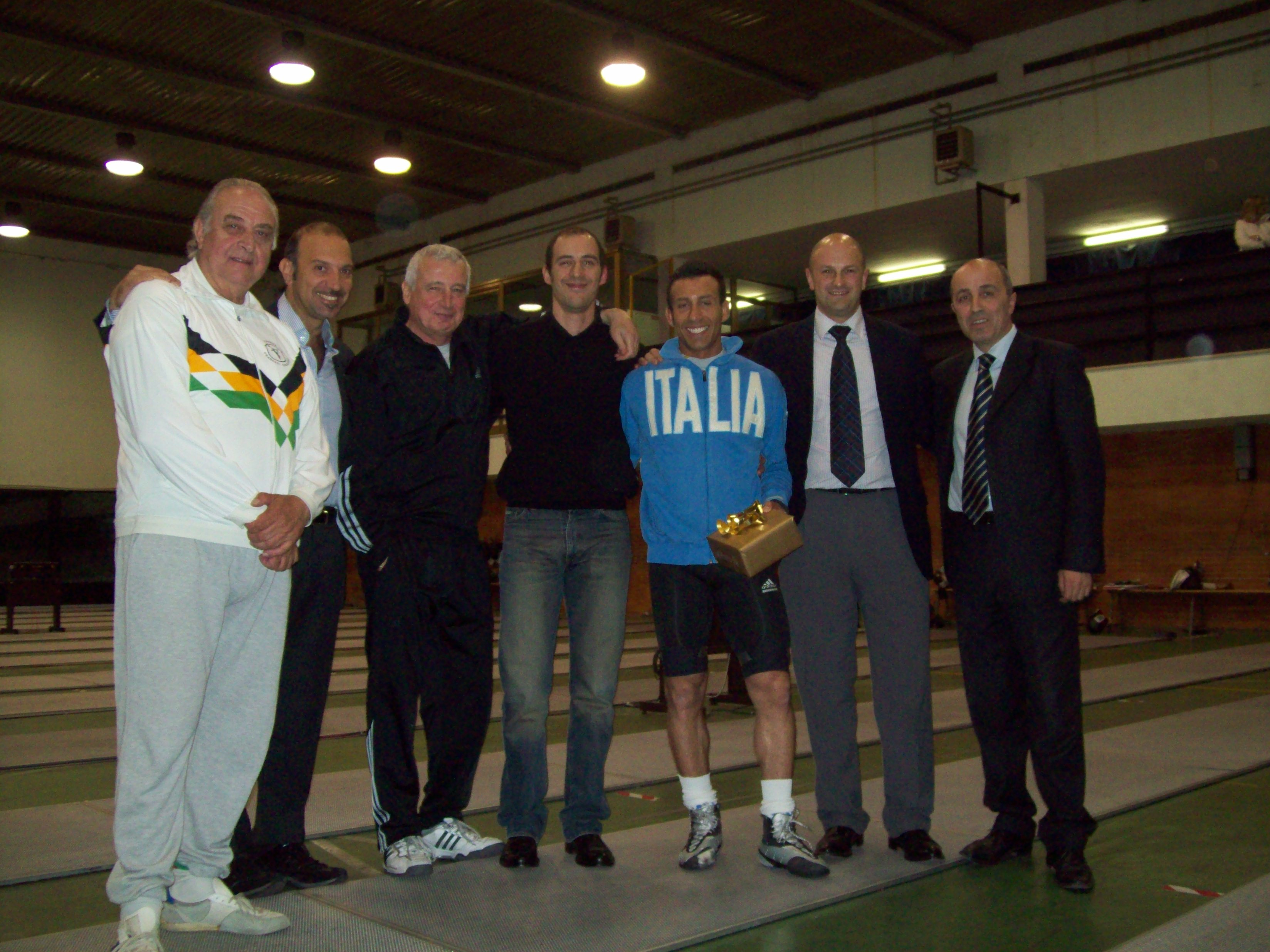 Salvatore Di Naro and Stefano Barrera receive a prize from the ASD Frascati fencing club after Stefano's victory at the 2008 World Fencing Championships. Salvatore Di Naro e Stefano Barrera Vengono premiati dall'ASD Frascati Scherma dopo la vittoria di Stefano al Campionato mondiale di scherma 2008.